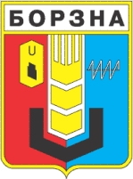 Coat of arms of Borzna, USSR